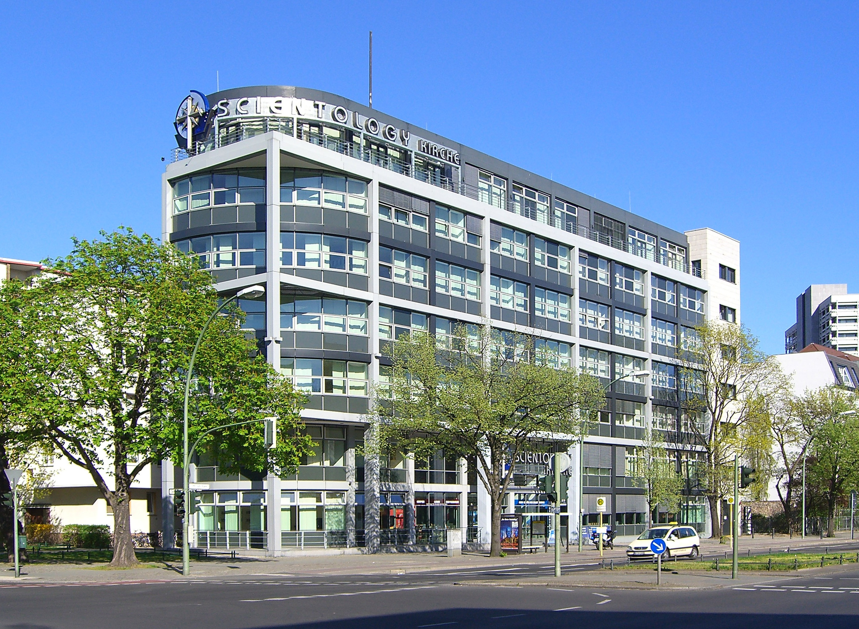 "Church of Scientology": German head office in Berlin